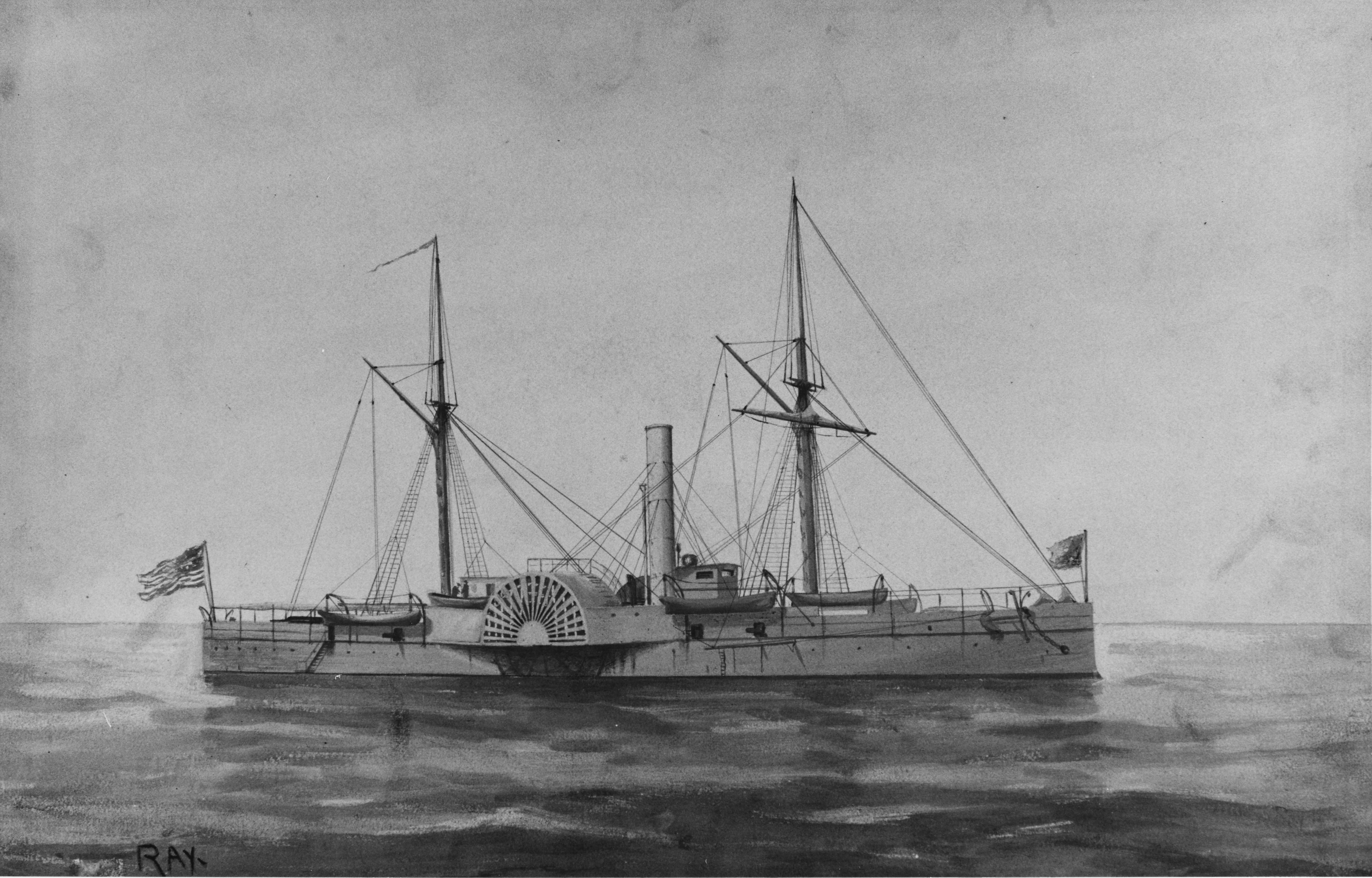 From U.S. Navy public domain USS Tallapoosa (1864-1892) Wash drawing by Clary Ray, circa 1900, depicting Tallapoosa as she appeared during the Civil War. Courtesy of the U.S. Navy Art Collection, Washington, D.C. U.S. Naval Historical Center Photograph. Cropped from original tiff file.